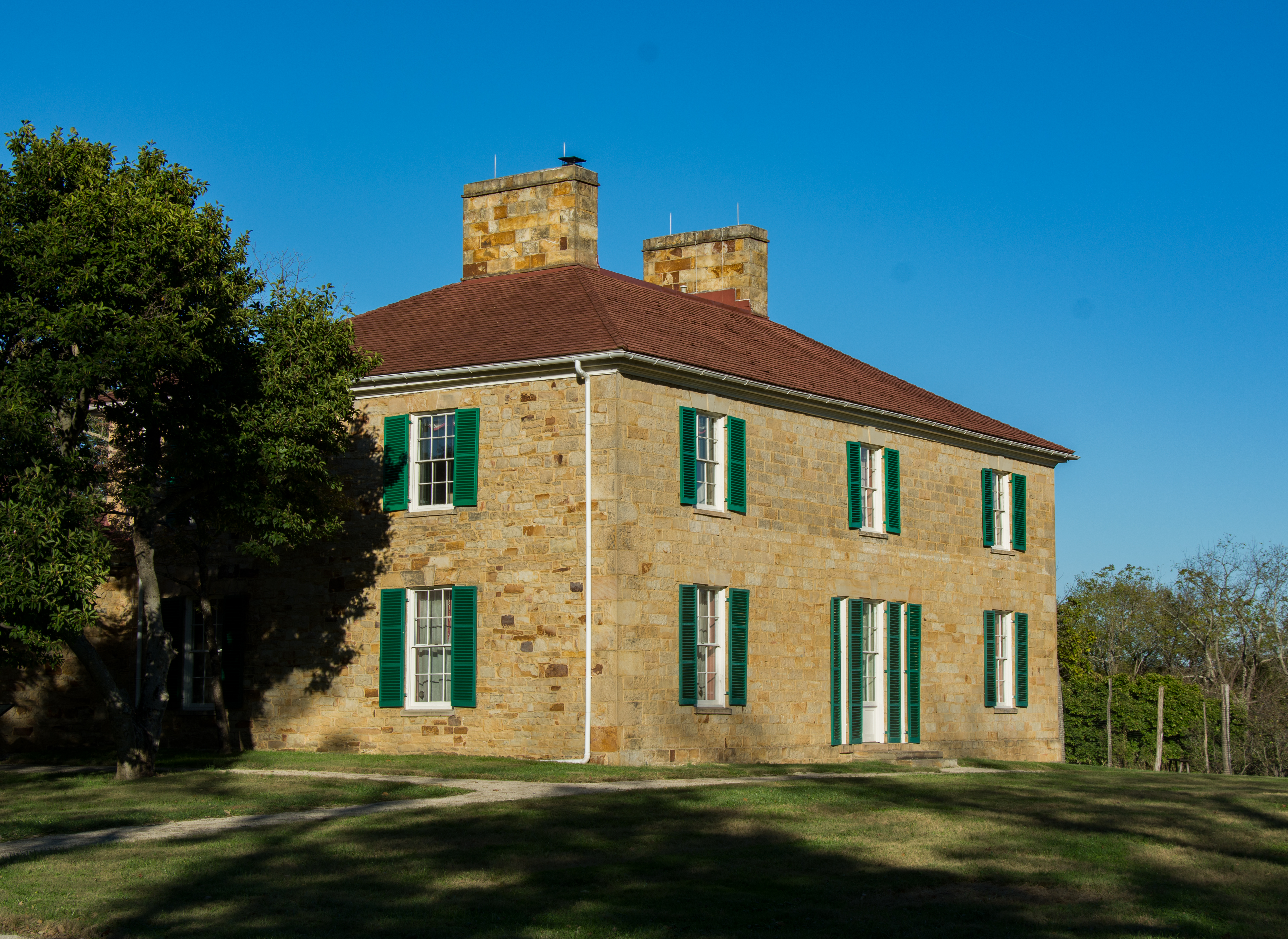 The Adena Mansion in 2018.